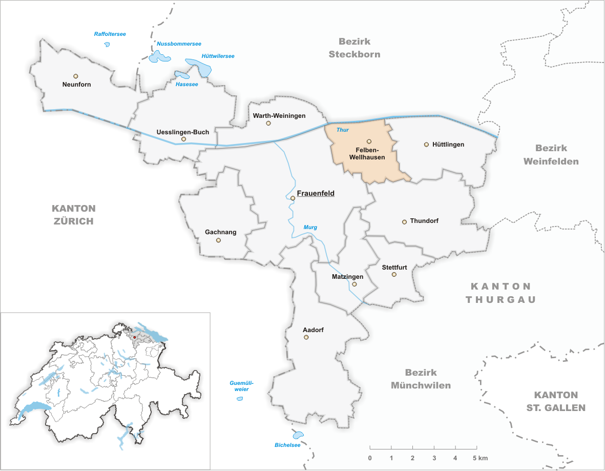 Municipality Felben-Wellhausen